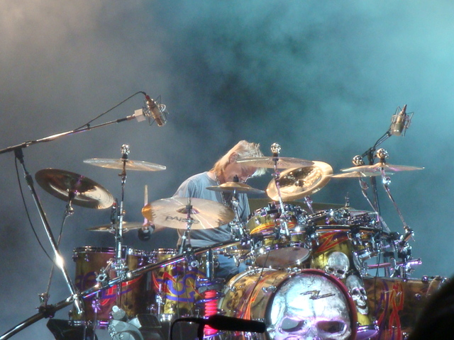 Frank Beard in Concert